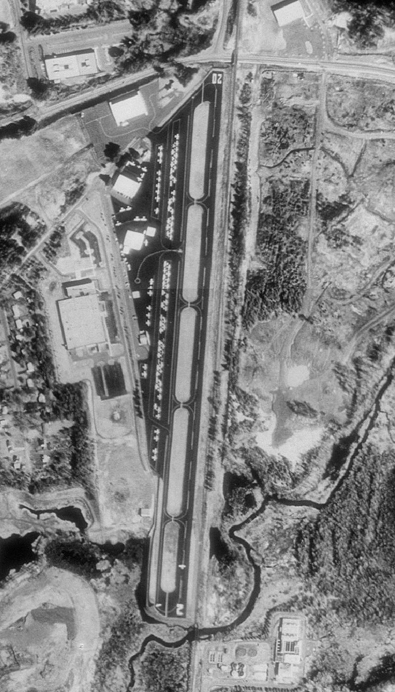 USGS digital orthophoto of Robertson Field, also known as Robertson Airport, in Plainville, Hartford County, Connecticut, United States